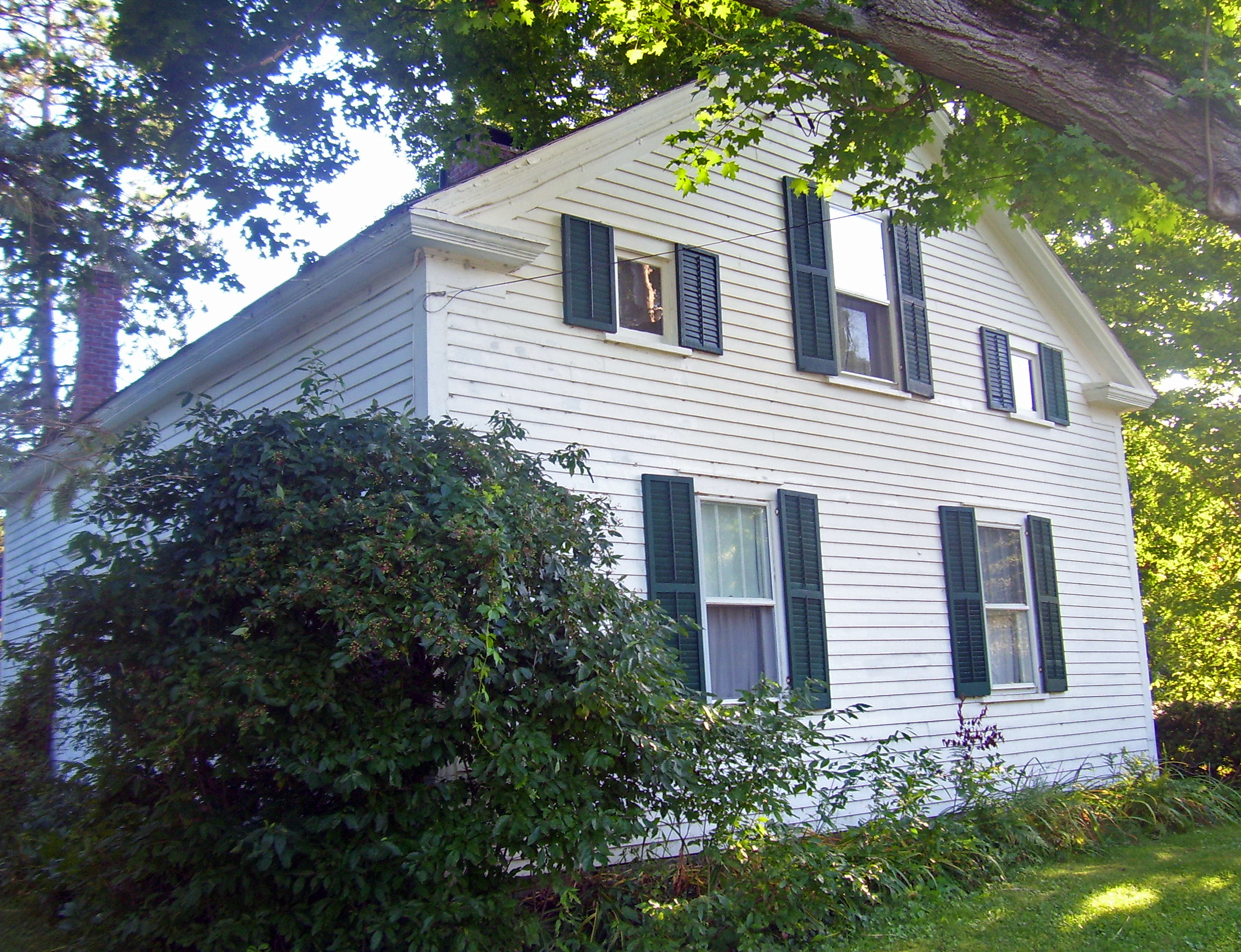 Home of Lemuel Haynes, first African-American ordained as a minister, in South Granville, NY, USA